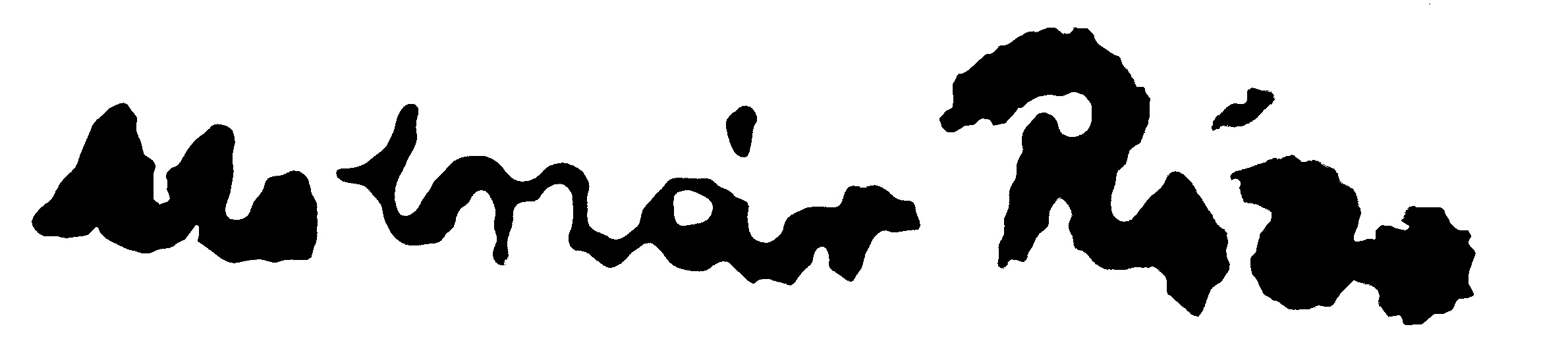 Signature of Roza Molnar